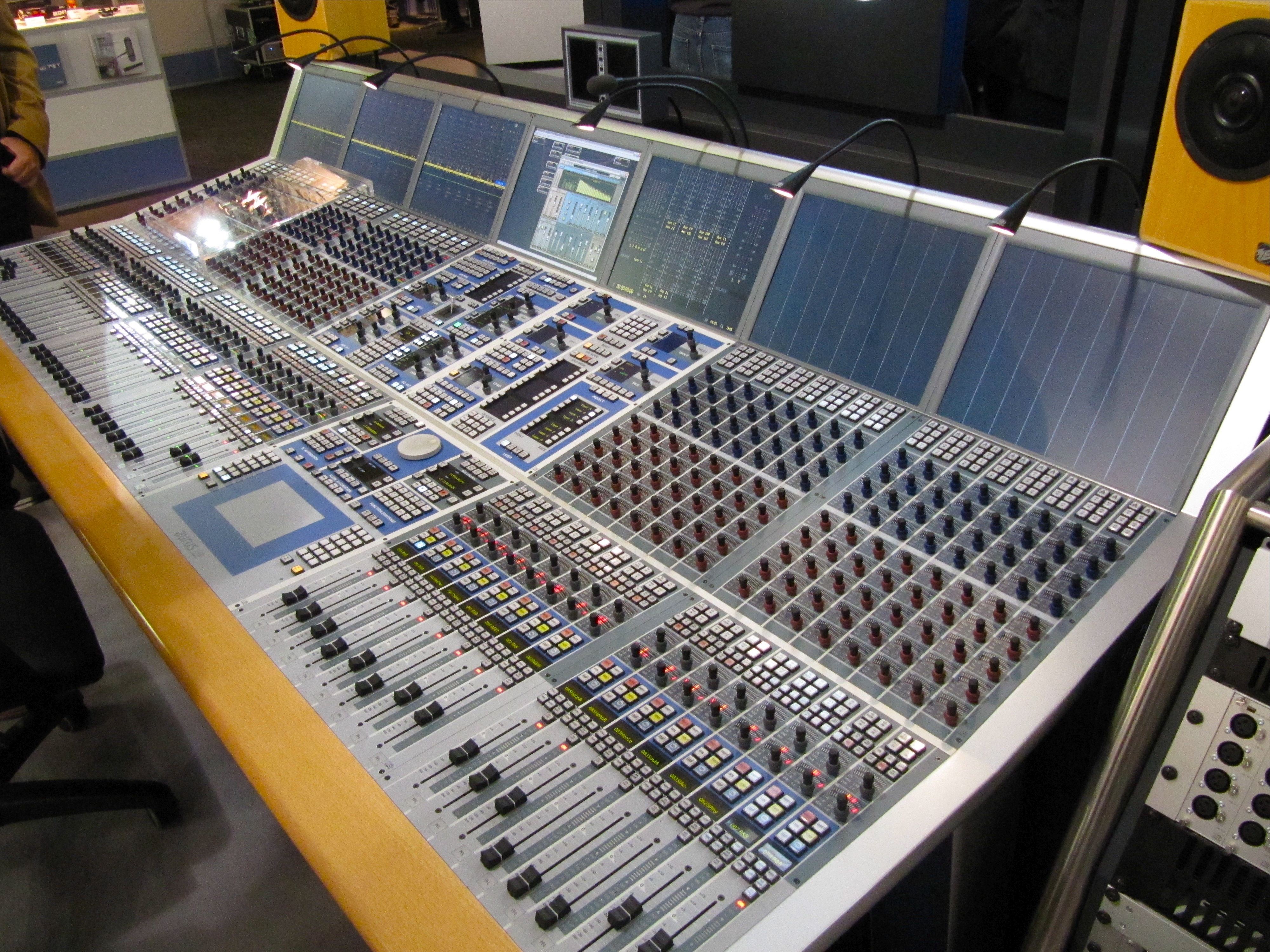 Stagetec Aurus – The Direct Access Console – digital audio mixing console; IBC 2008, Amsterdam